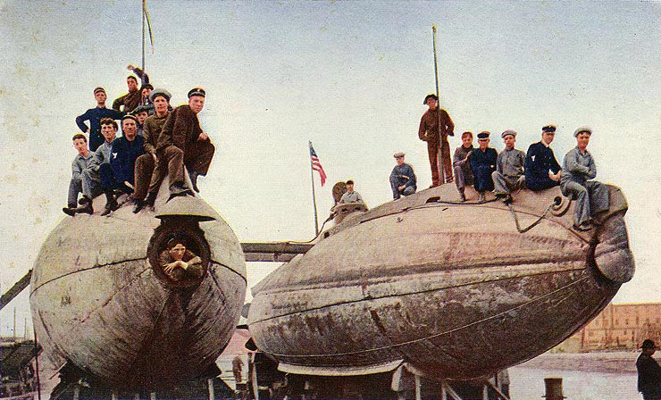 USS Shark (Submarine # 8), at left, and USS Porpoise (Submarine # 7) On cradles at the New York Navy Yard, circa 1905. Photograph by Enrique Muller, published on a contemporary postal card by the American Colortype Company. Courtesy of the Naval Historical Foundation. Collection of Commander Theodore G. Ellyson, USN. U.S. Naval Historical Center Photograph. Photograph # NH 98835-KN